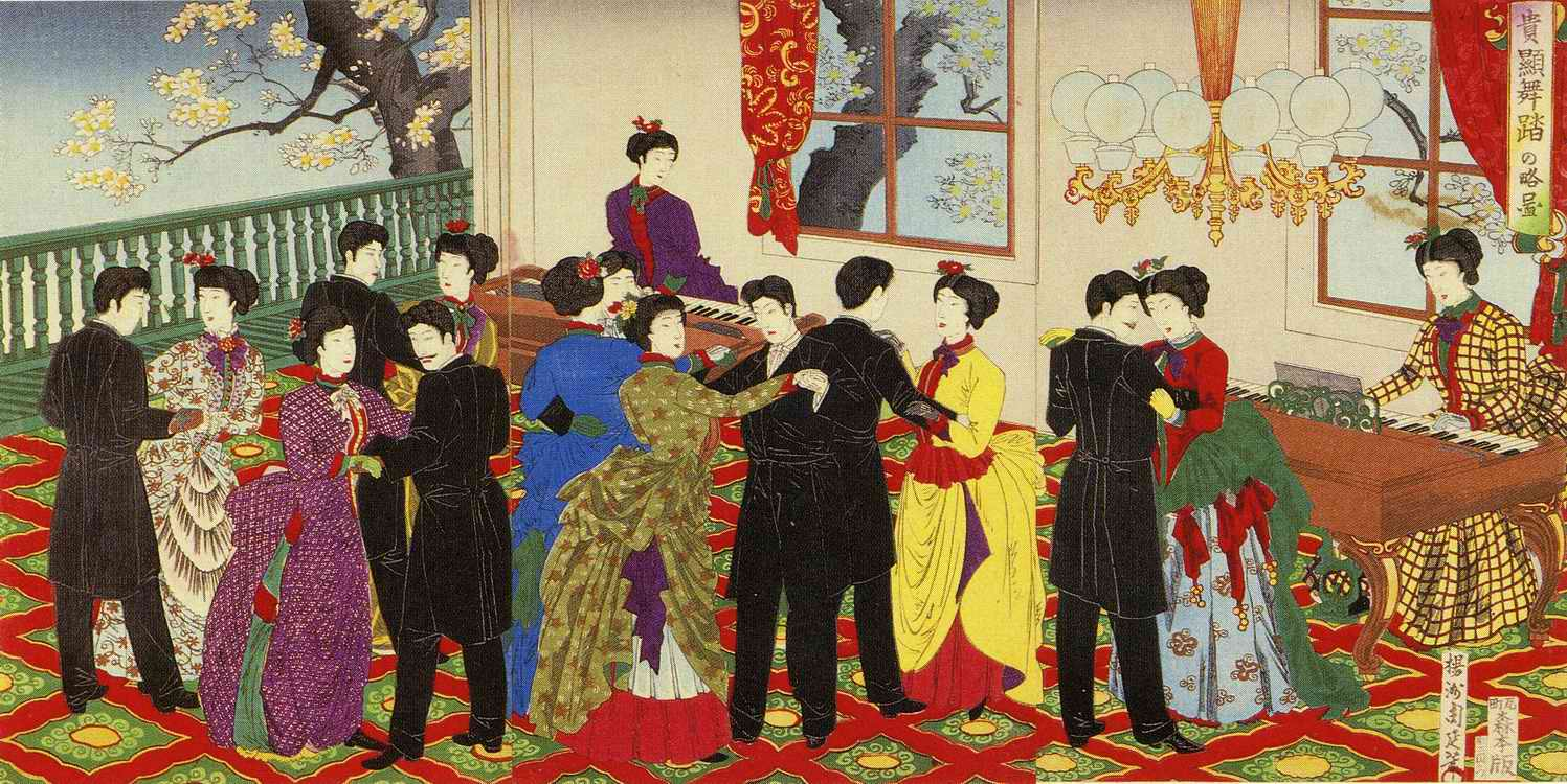 Ukiyoe depicting ballroom dancing at the Rokumeikan, Tokyo, Japan, 1888. Japanese title: kiken butō no ryakuzu (貴顕舞踏の略図)